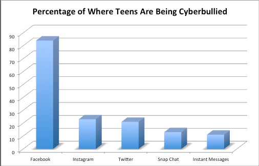 graf, znázorňujúci kde sa teenageri najviac stávajú obetami kyberšikany